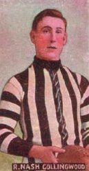 Robert Nash This image of Robert Nash is from c. 1905. Under Australian law, all photographs taken in Australia before 1955 are in the public domain. This image is in the public domain under both Australian copyright law and US copyright law.